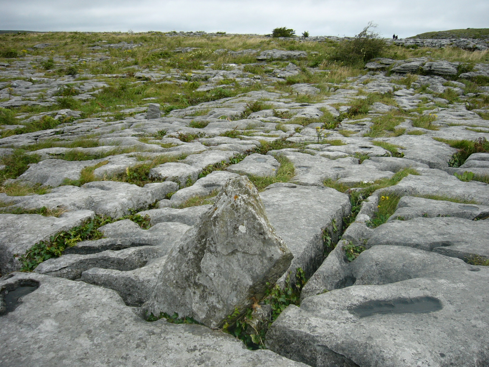 The Burren in Ireland